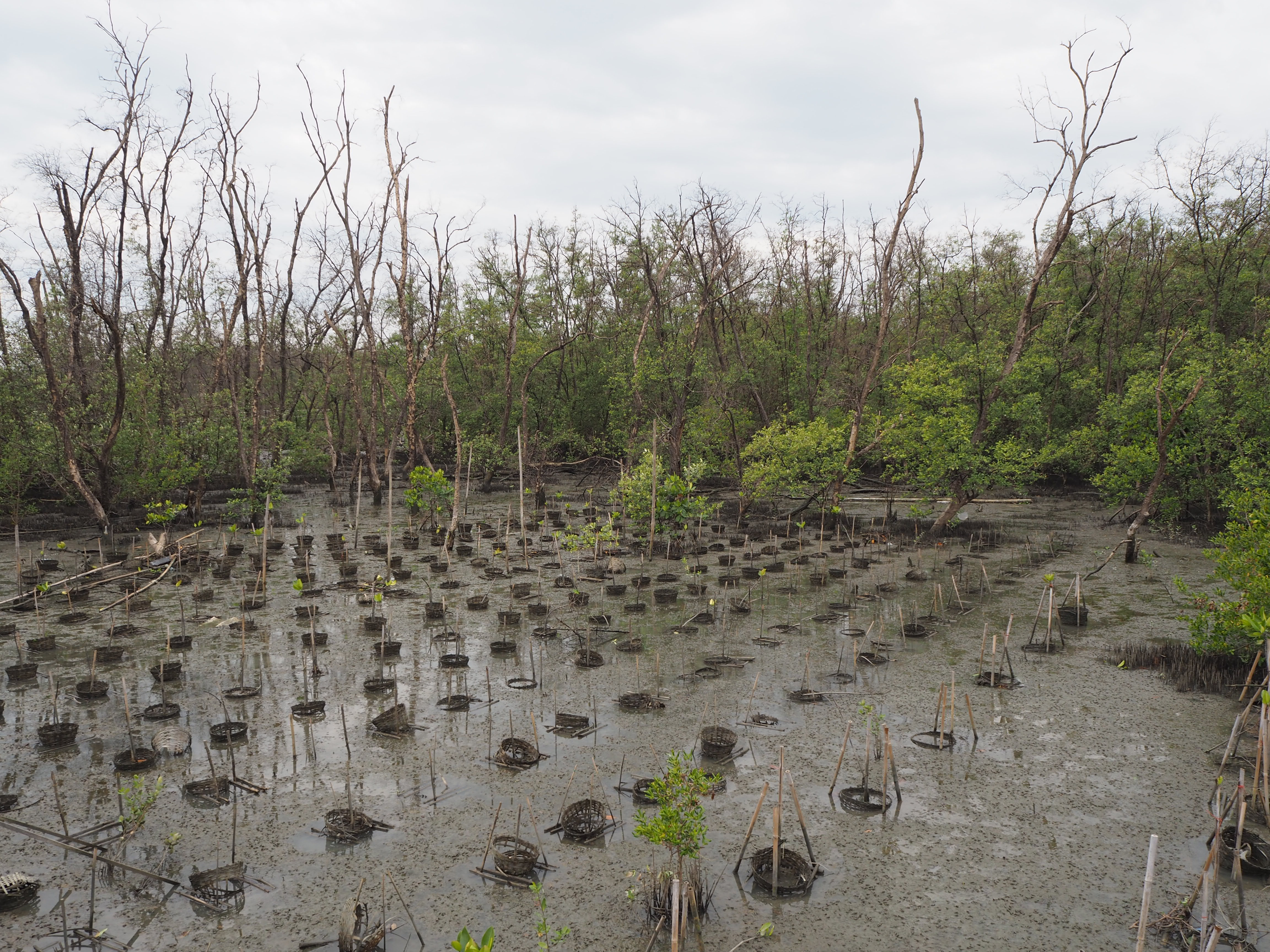 Mangrove plantation in ศูนย์ศึกษาธรรมชาติและอนุรักษ์ป่าชายเลนเพื่อการท่องเที่ยวเชิงนิเวศ, Chonburi, Thailand